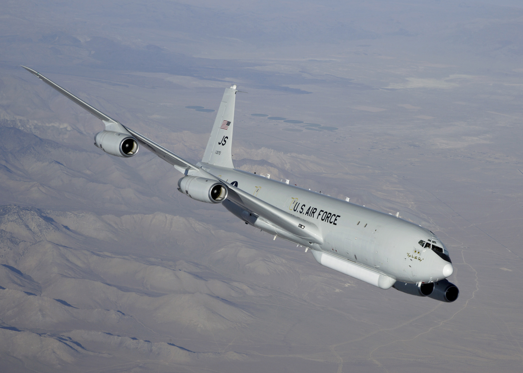 The 751st Electronic Systems Group's E-8C Joint STARS test aircraft, T-3, performs flight testing with JT8D-219 engines during a December deployment to Edwards Air Force Base, Calif. In February, 633rd Electronic Systems Squadron officials awarded two major contract actions to continue the Joint STARS re-engining program's system design and development phase activities.